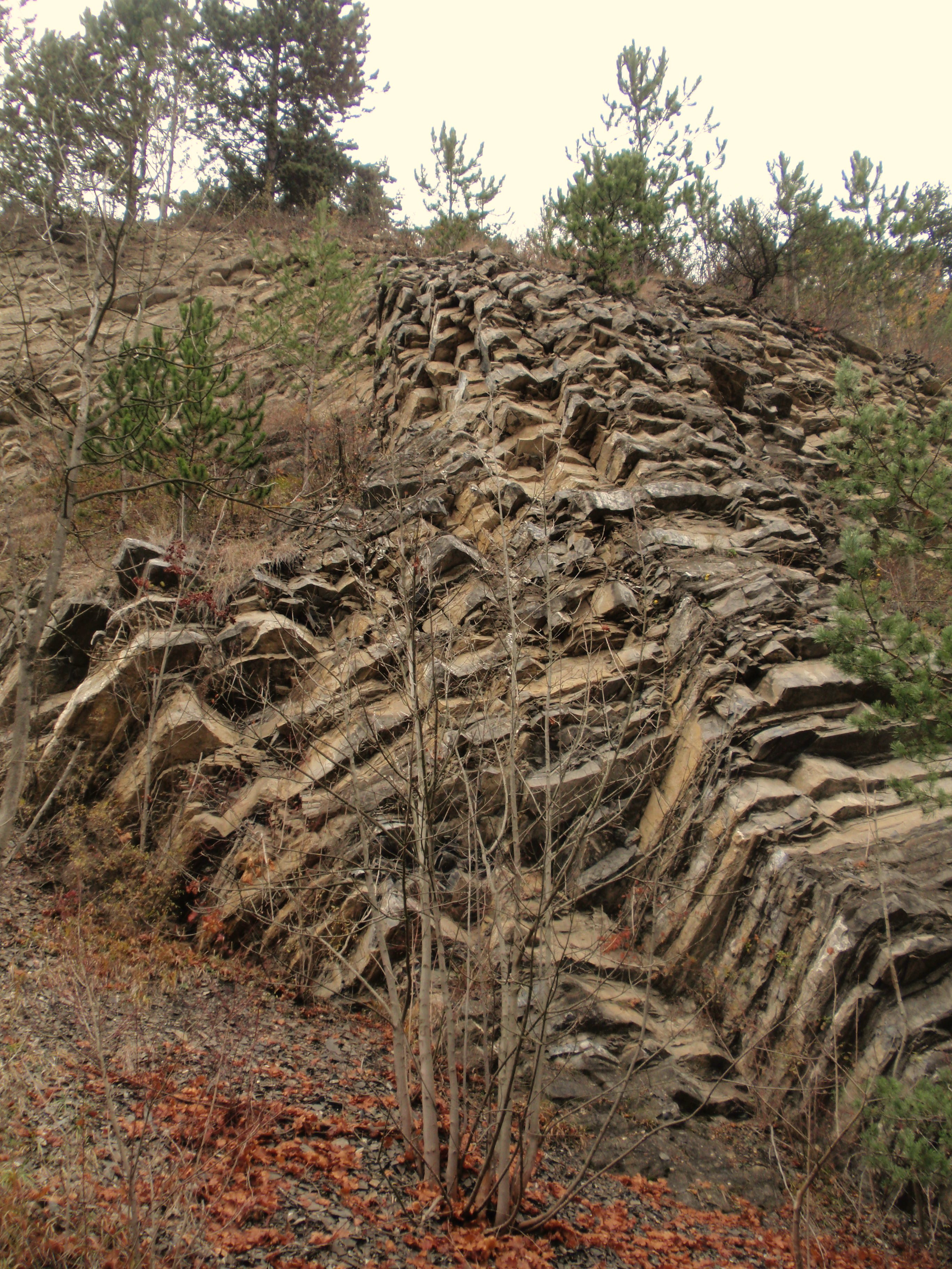 National natural monument Černé rokle in Prague and Prague-West District, Czech Republic